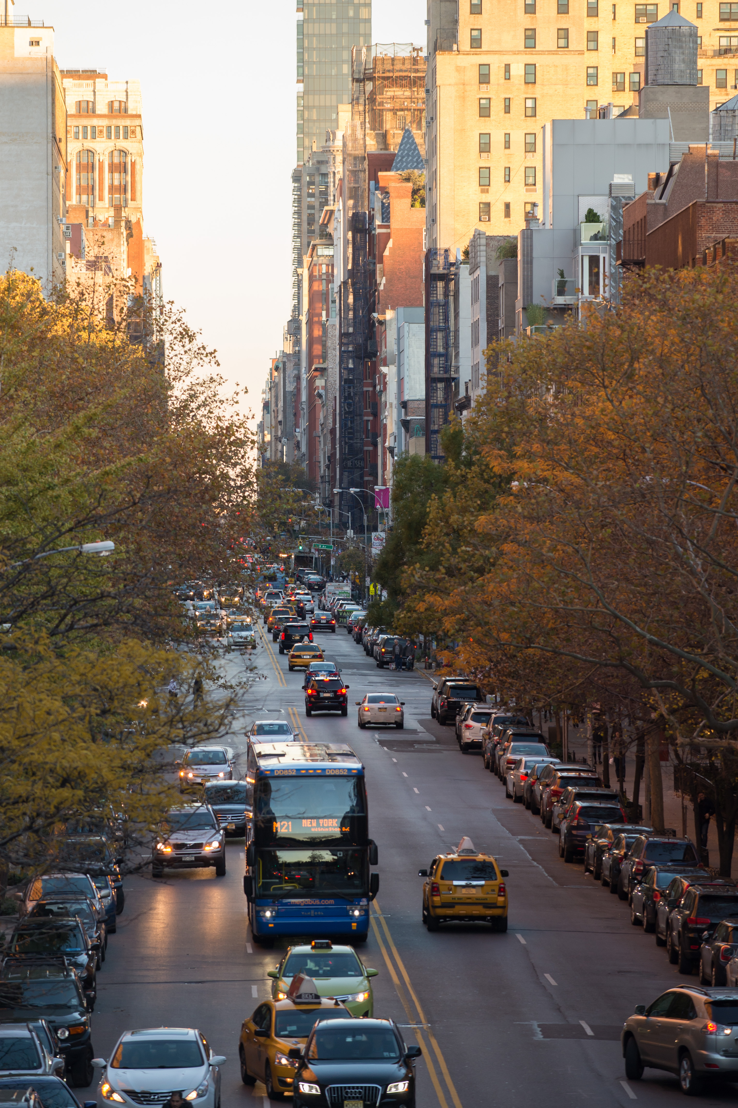 M21 Megabus. Service between NYC and Washington, DC. Looking east on 23rd Street.